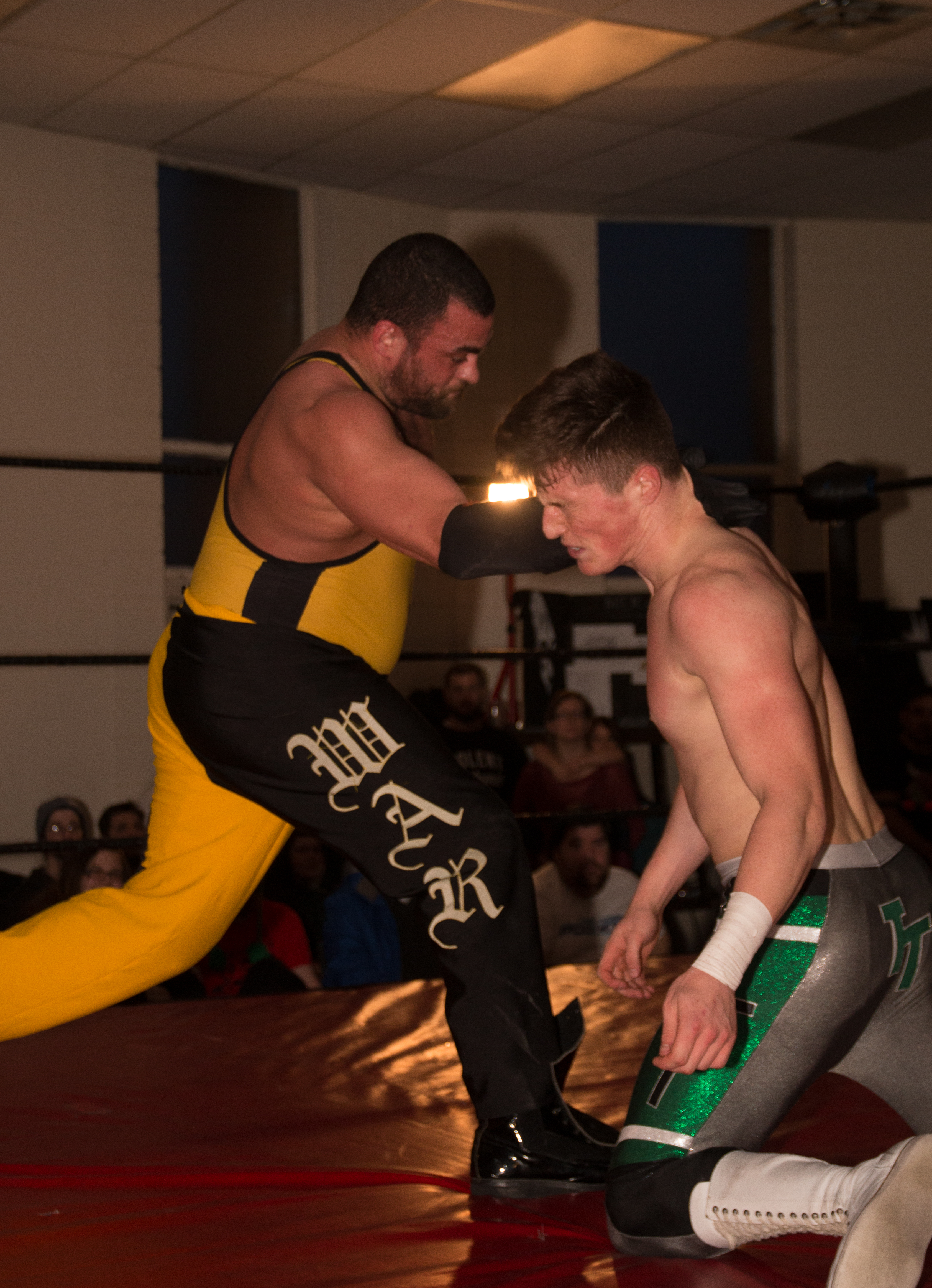 Eddie Kingston (standing) executing a spinning backfist against Tyler Thomas at Alpha-1 Wrestling's Watch the Throne 3 show in Hamilton, ON